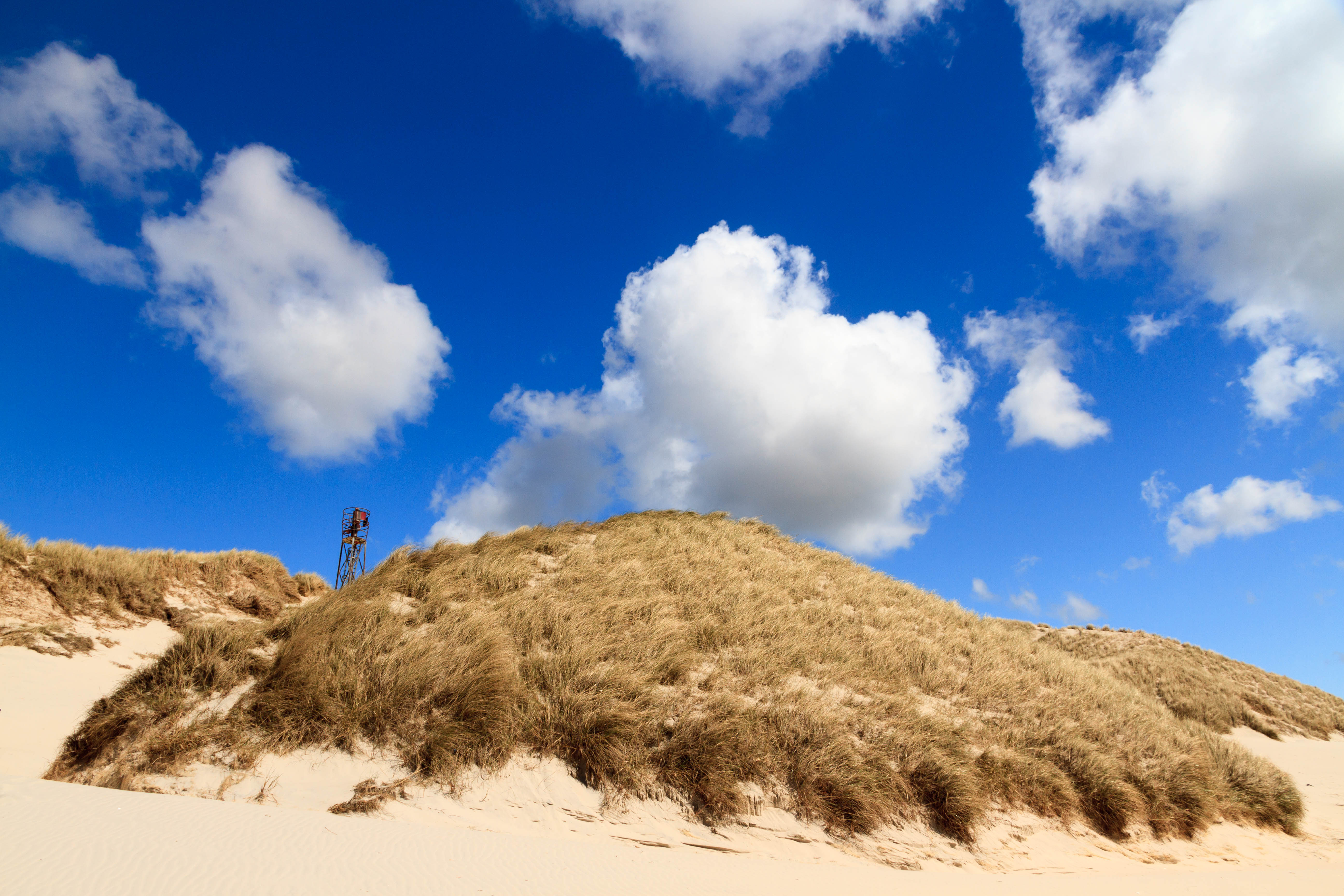 The making of this document was supported by the Community-Budget of Wikimedia Germany. Amrum Lighthouse